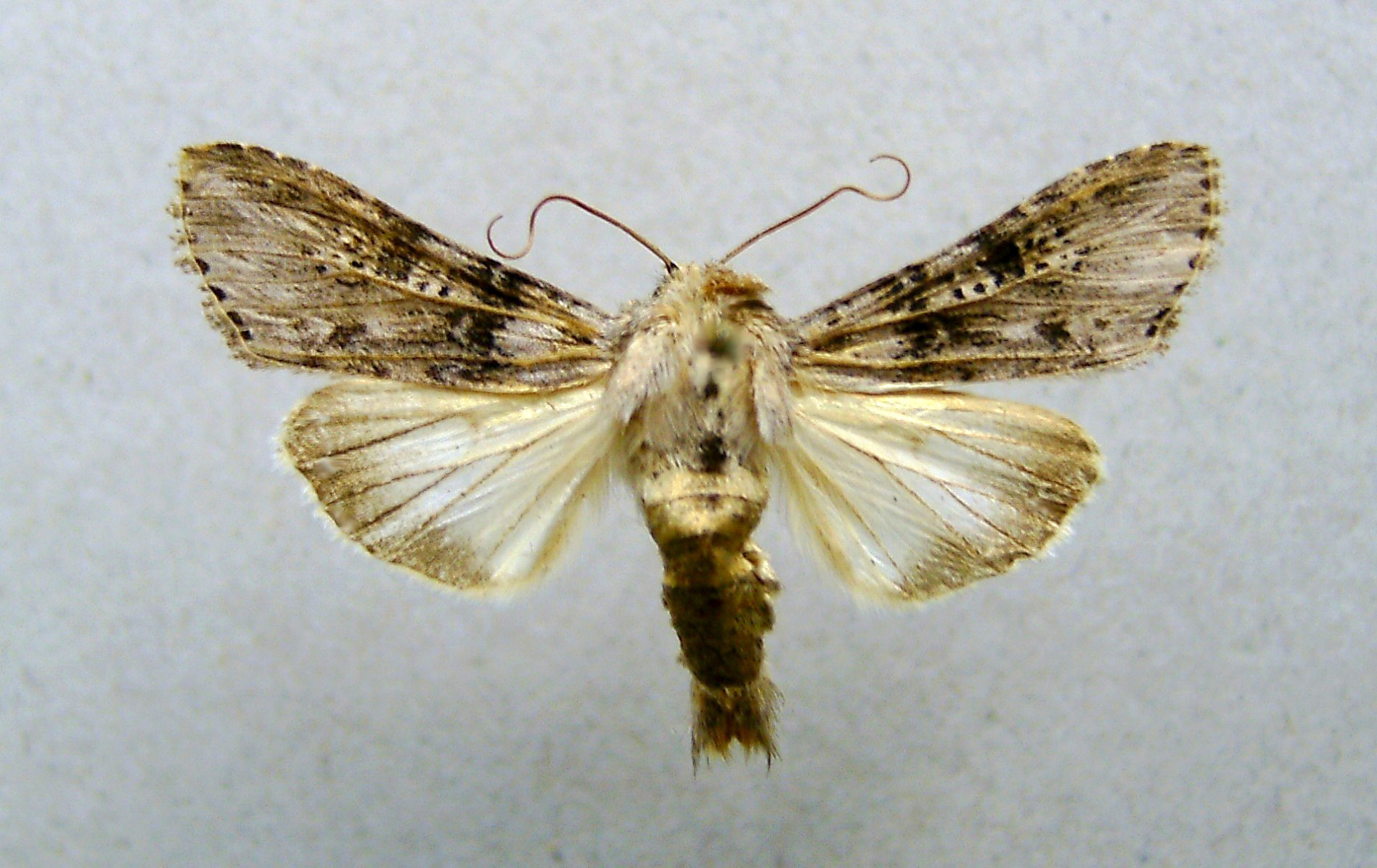 Cucullia absinthii